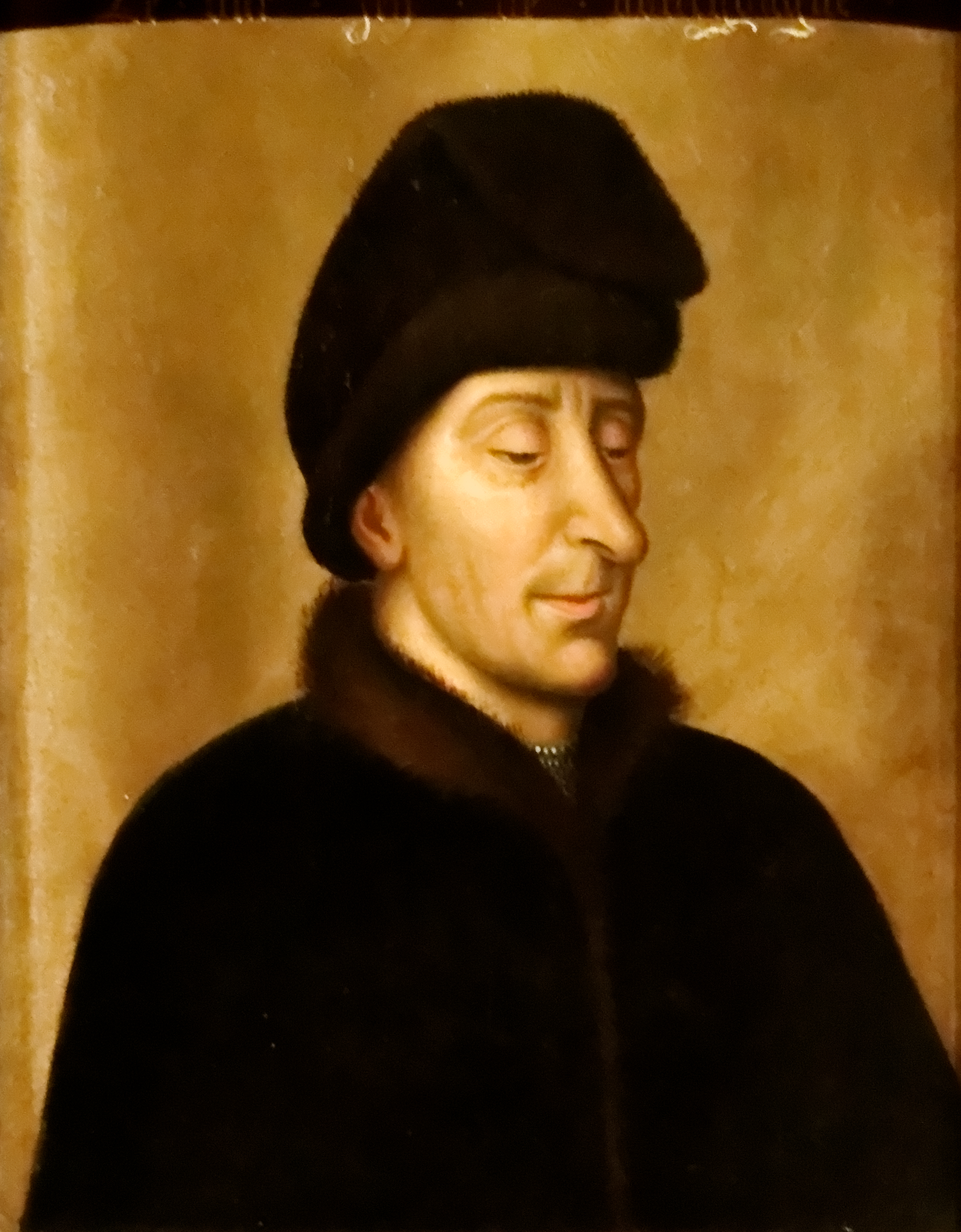 Portrait of John the Fearless. c 1500. Vienna (Austria)